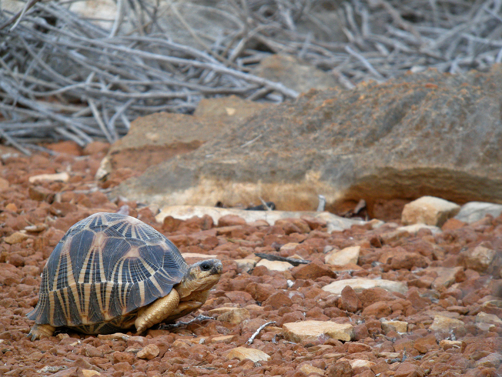 Digiscoping with Swarovski ATM 80 HD 30 X, Coolpix P5100 (Adapter DCB)